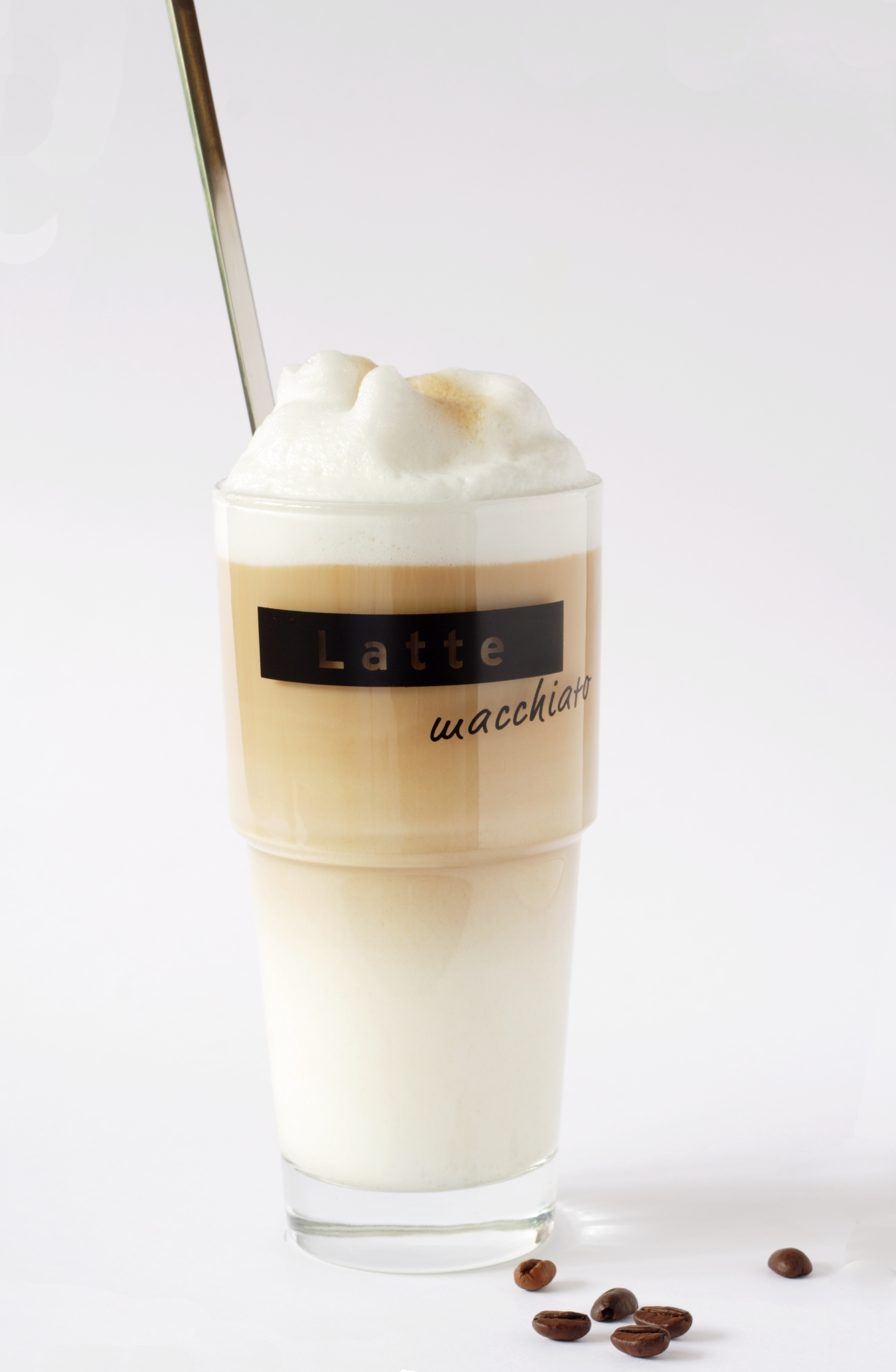 This photograph shows a glass of latte macchiato, which is a hot beverage made from steamed milk and espresso.